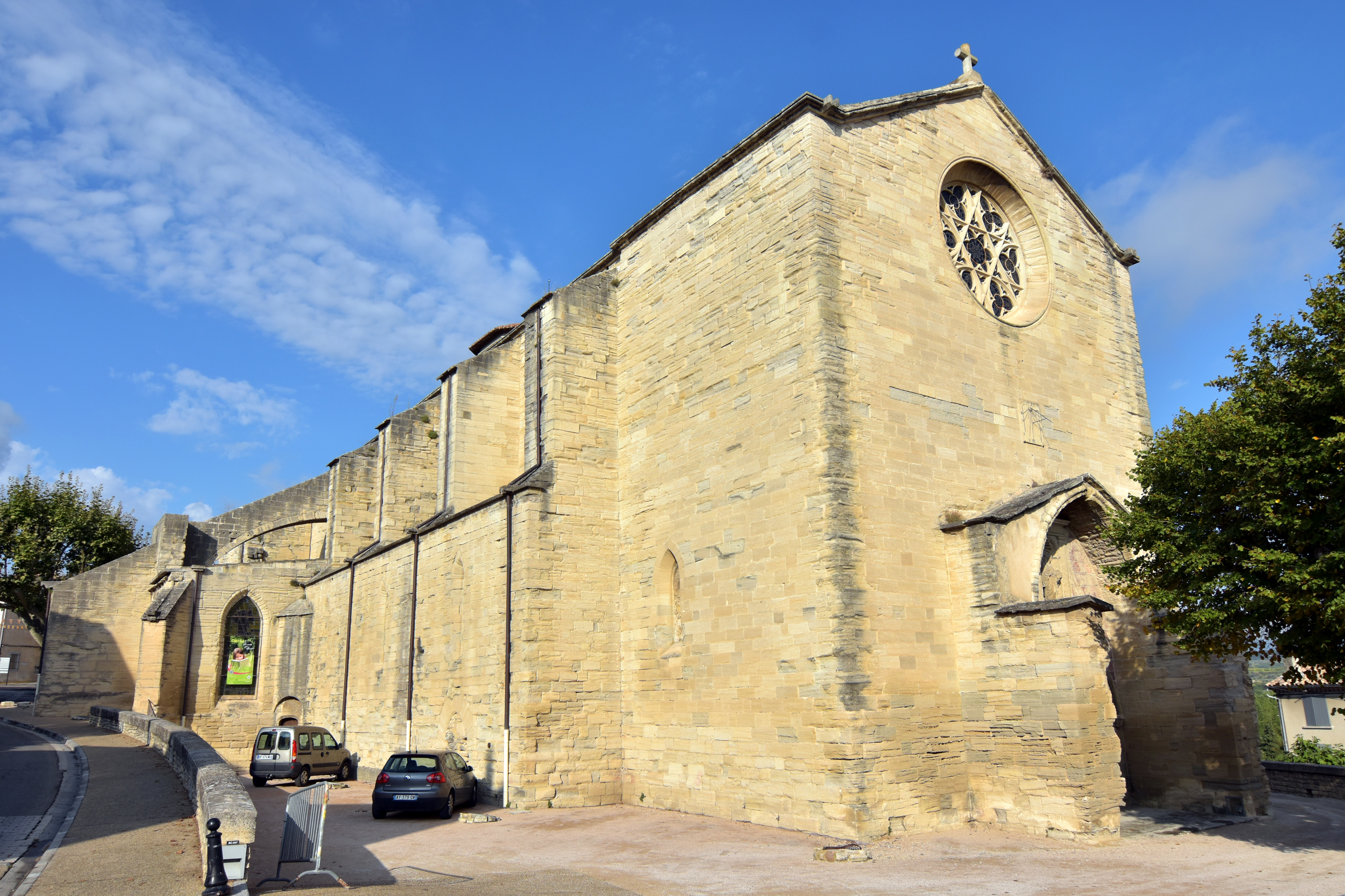 Caromb, Église Saint-Maurice